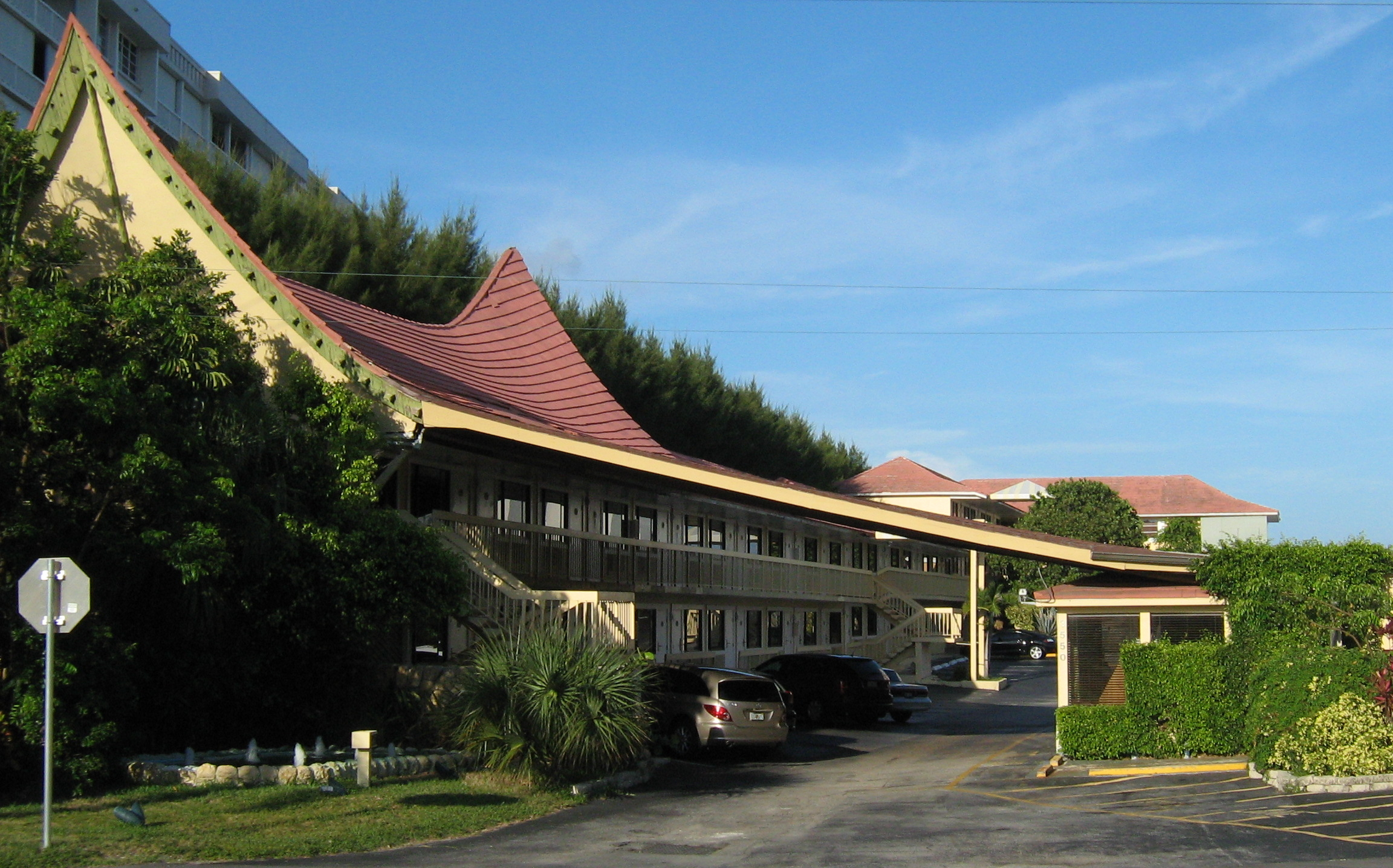 The Palm Beach Oceanfront Inn and its ocean-front restaurant (Tides Bar and Grille), located at 3550 South Ocean Boulevard, make up the only commercial business establishment within the town of South Palm Beach, Florida.